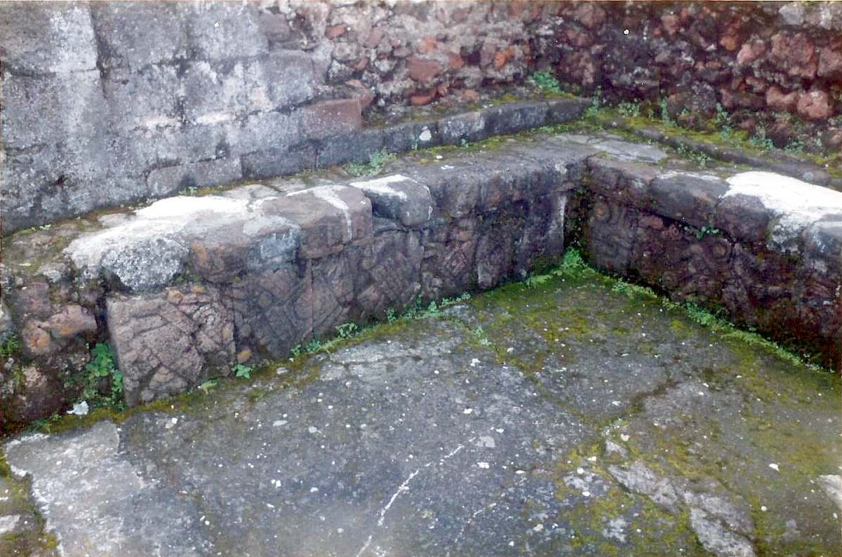 El Tepozteco, an Aztec temple to the god Tepoztecatl. Morelos, Mexico.